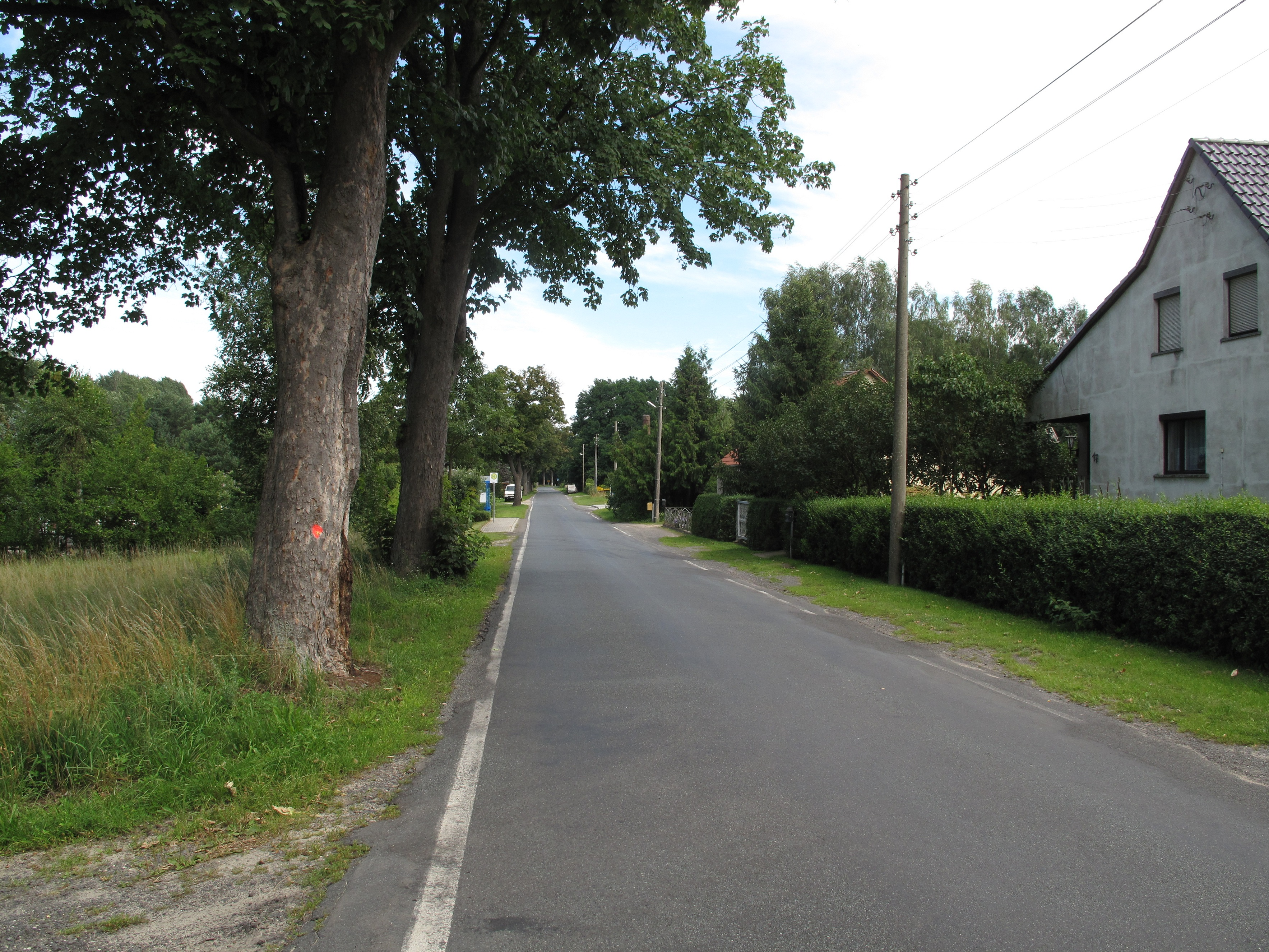 Landesstraße 34 in Karlsdorf. Karlsdorf is a part of Altfriedland, a village of the municipality Neuhardenberg in the District Märkisch-Oderland, Brandenburg, Germany. Karlsdorf was founded in 1774/75 as colonist village and named after Charles Frederick Albert, Margrave of Brandenburg-Schwedt, landlord in Friedland. The village is especially known for its fishing waters „Karlsdorfer Teiche“.